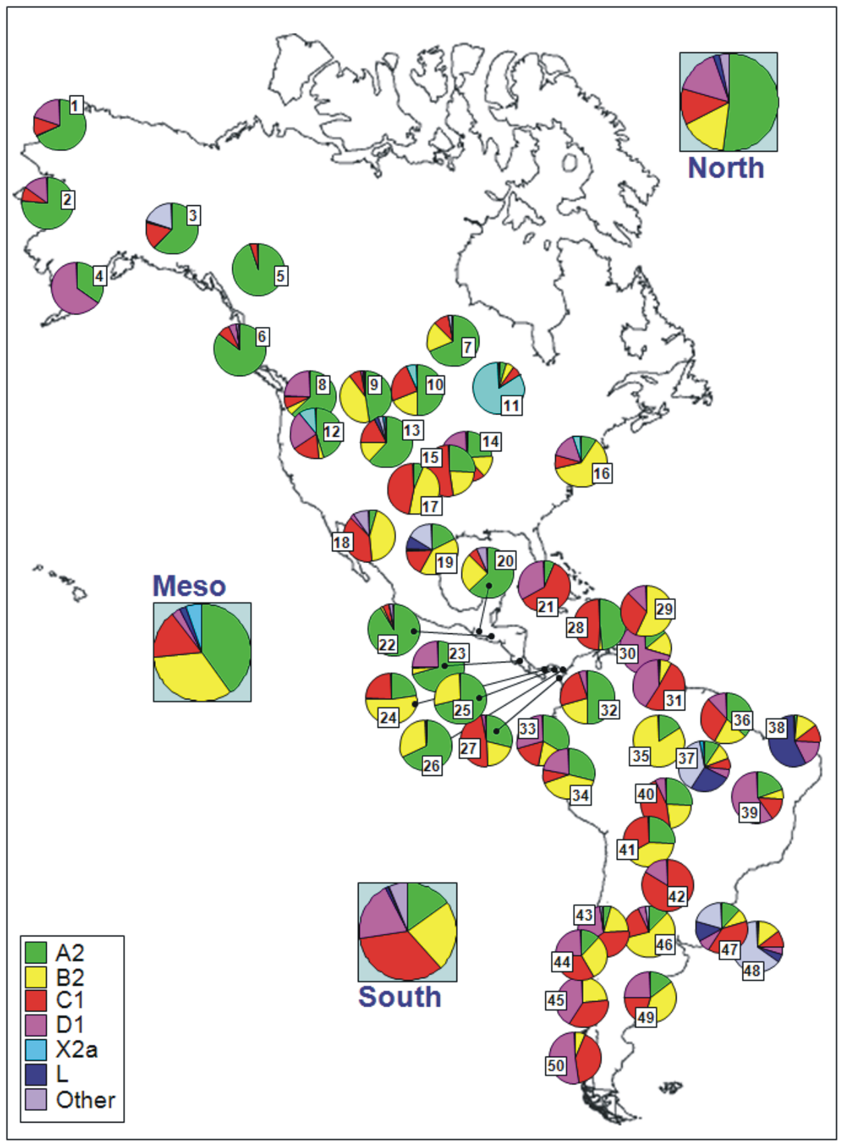 Frequency distribution of the main mtDNA American haplogroups in Native American populations. Codes for populations are as follow: North America: 1 = Chukchy, 2 = Eskimos ; 3 = Inuit (collected from the HvrBase database ; 4 = Aleuts ; 5 = Athapaskan ; 6 = Haida ; 7 = Apache , 8 = Bella Coola ; 9 = Navajo ; 10 = Sioux, 11 = Chippewa , 12 = Nuu-Chah-Nult ; 13 = Cheyenne ; 14 = Muskogean populations ; 15 = Cheyenne-Arapaho ; 16 = Yakima ; 17 = Stillwell Cherokee ; Meso-America: 18 = Pima ; 19 = Mexico ; 20 = Quiche ; 21 = Cuba ; 22 = El Salvador ; 23 = Huetar ; 24 = Emberá ; 25 = Kuna ; 26 = Ngöbé ; 27 = Wounan ; South America: 28 = Guahibo ; 29 = Yanomamo from Venezuela ; 30 = Gaviao ; 31 = Yanomamo from Venezuela and Brazil ; 32 = Colombia ; 33 = Ecuador (general population), 34 = Cayapa ; 35 = Xavante ; 36 = North Brazil ; 37 = Brazil ; 38 = Curiau ; 39 = Zoró ; 40 = Ignaciano, 41 = Yuracare ; 42 = Ayoreo ; 43 = Araucarians ; 44 = Pehuenche, 45 = Mapuche from Chile ; 46 = Coyas ; 47 = Tacuarembó ; 48 = Uruguay ; 49 = Mapuches from Argentina ; 50 = Yaghan